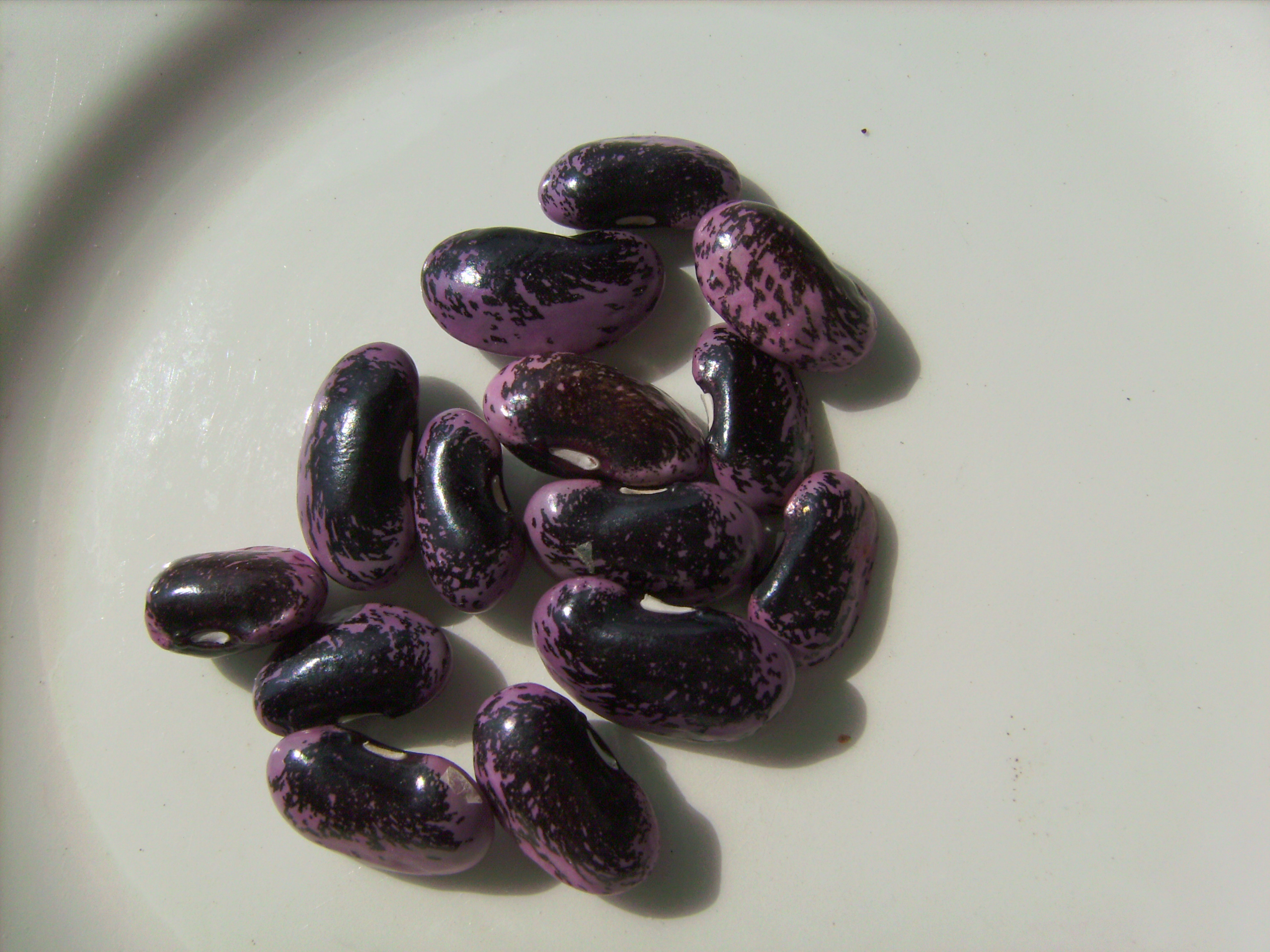 Beans of Phaseolus coccineus growing in Castelltallat, Catalonia